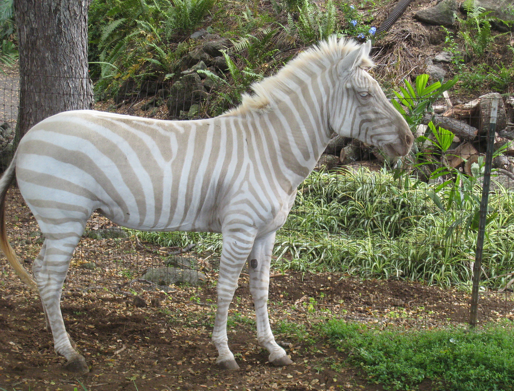 Golden Zebra - Amelanism, or amelanosis, is a pigmentation abnormality characterized by the lack of color pigments called melanins.